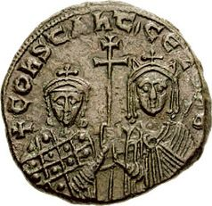 Obverse of bronze follis of Constantine VII with his mother Zoe Karbonopsina, during the latter's regency (914–919).